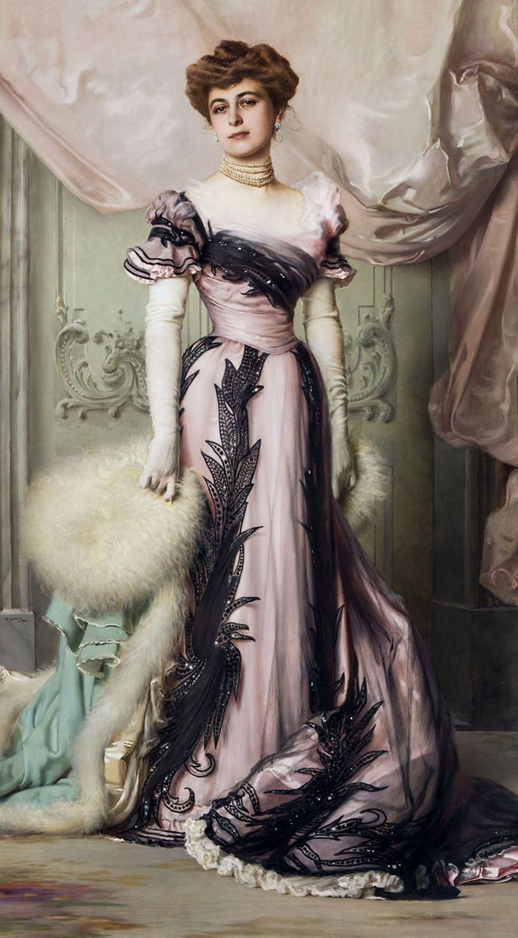 Countess Carolina Sommaruga Maraini